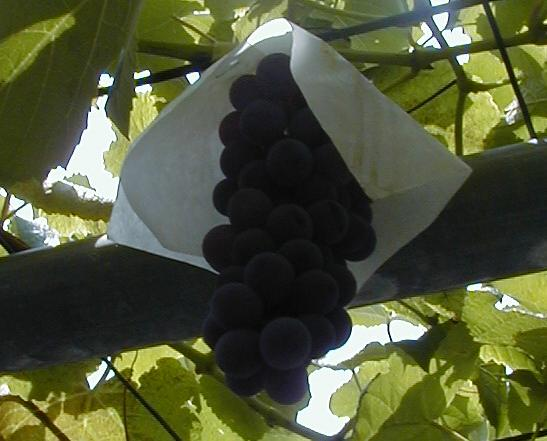 Photo of Delaware grapes on the vine. Image cropped for close up of grapes.